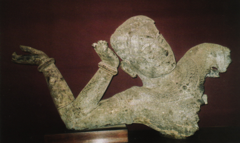 Status of Vishnu at West Mebon (Present day at National Museum, Phnom Penh ភាសាខ្មែរ: បដិមាព្រះវិស្ណុផ្ទំនៃប្រាសាទមេបុណ្យខាងលិច (សព្វថ្ងៃស្ថិតក្នុងសារមន្ទីរជាតិ ក្រុងភ្នំពេញ)